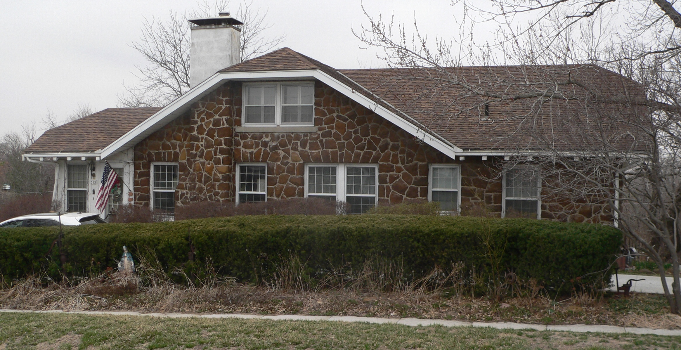 Paul Fitzgerald house, located at 513 E. 2nd Street in Louisville, Nebraska; seen from the south.